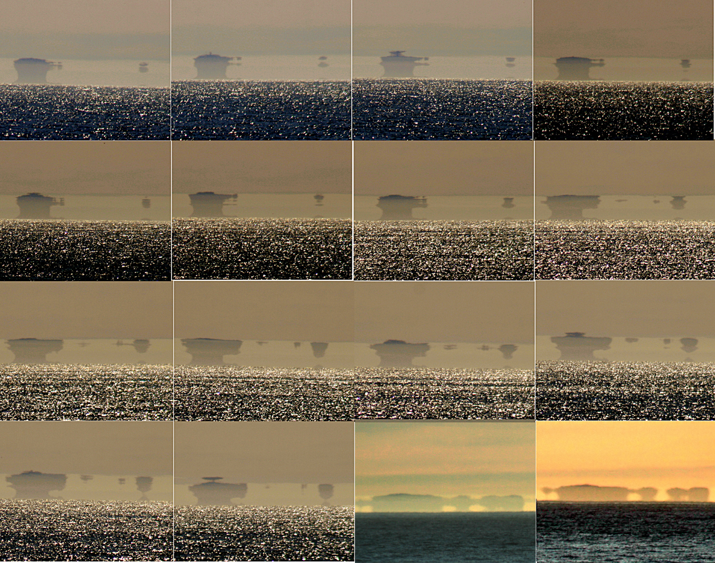 Sequence of Fata morgana of Farallon Islands show how Fata Morgana is changing constantly. The last two frames were photographed few hours after the first frames. Around sunset time the air is getting cooler, while the ocean might be a little bit warmer after a hot day. The lower the difference in the temperatures the lower inversion, and the mirage shown in the last two frames is not as complex as the mirage photographed around noon.